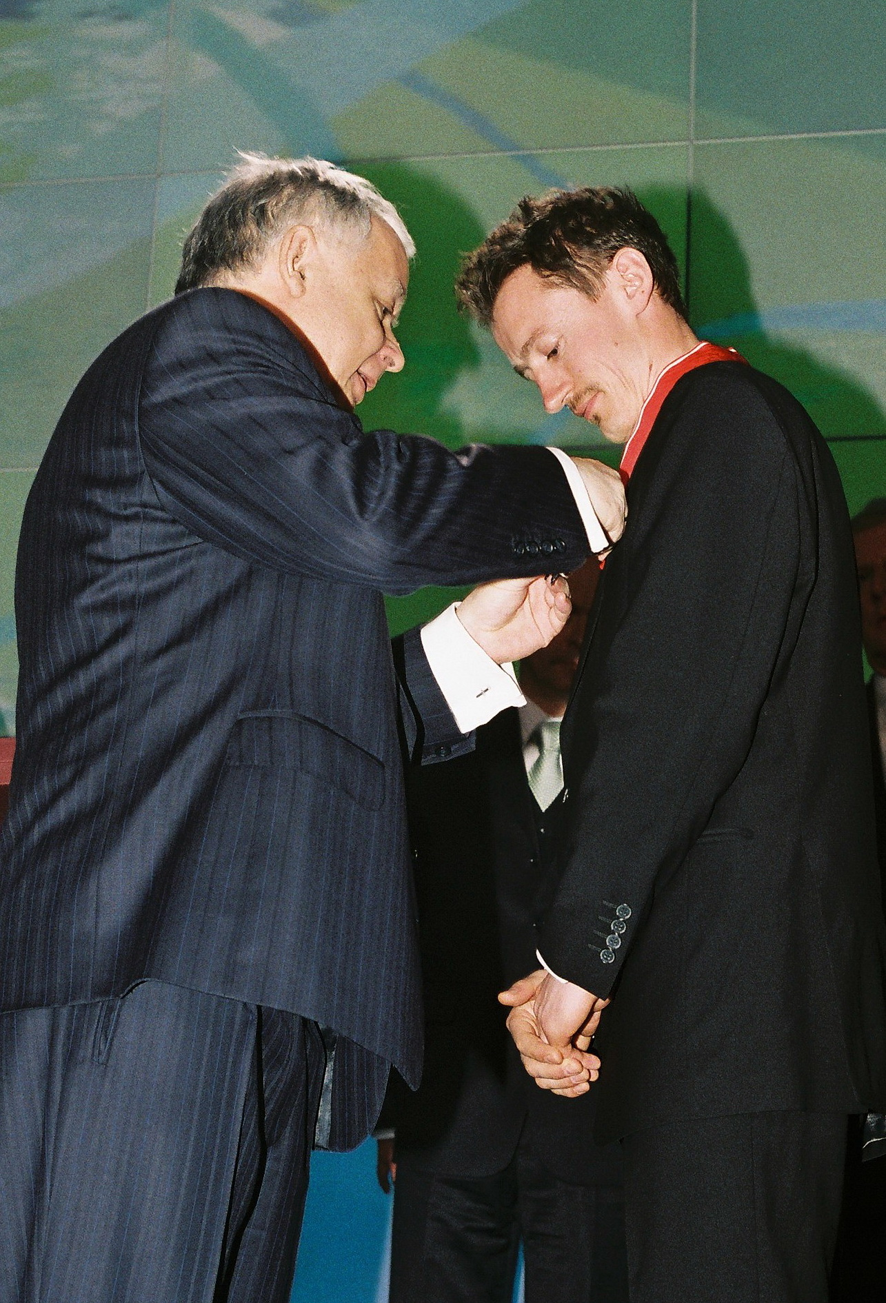 Adam Małysz & Lech Kaczyński (PKOL) (2010)